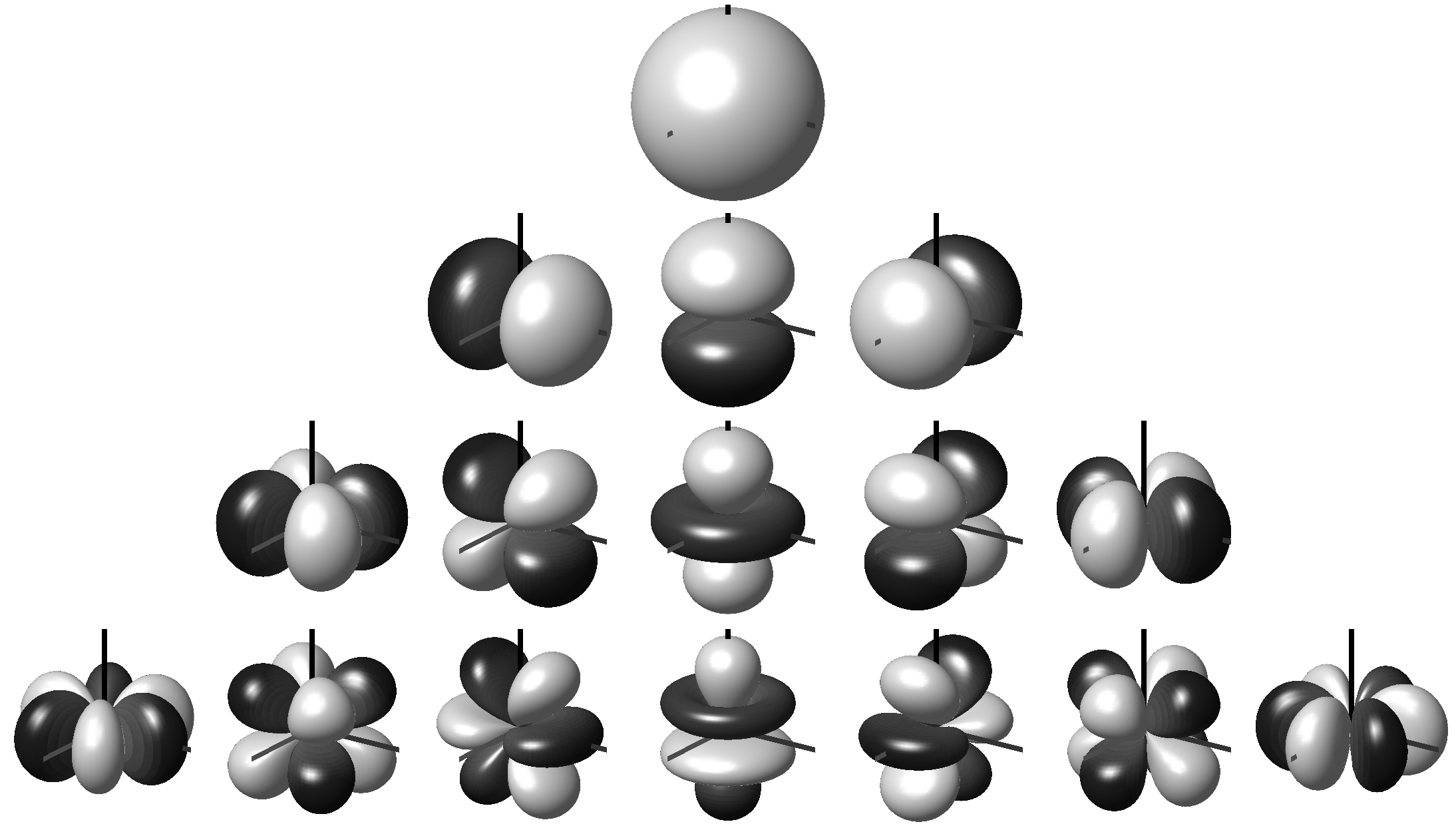 Spherical Harmonics up to degree 3, as used in third-order Ambisonics